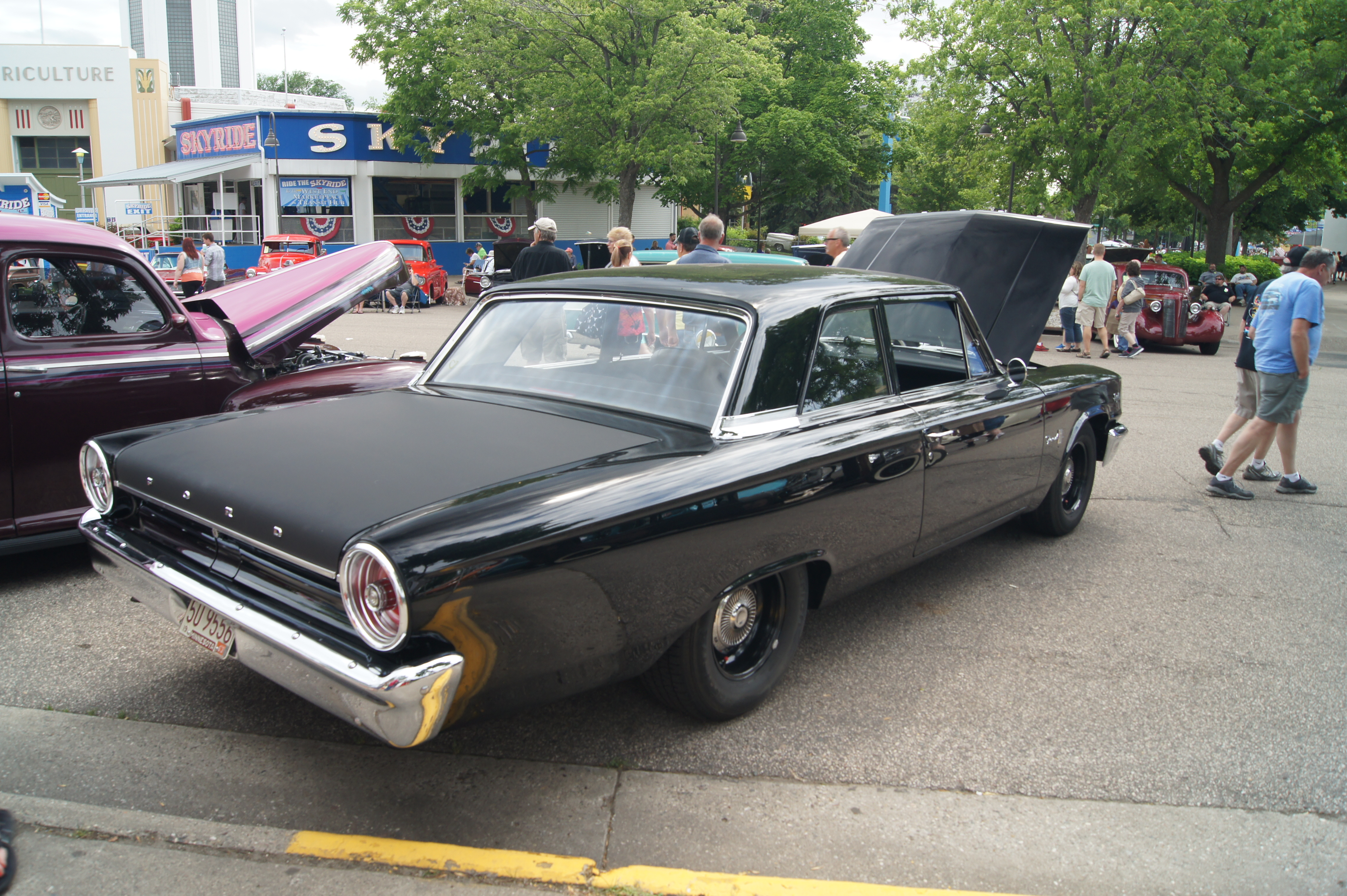 MSRA “BACK TO THE 50′s” 42nd Annual June 19-21, 2015 State Fairgrounds St. Paul Minnesota Click here for more car pictures at my Flickr site.